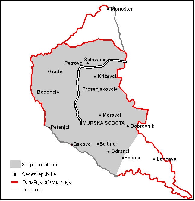 The map of the Mura Republic (slovenian)